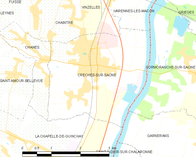 Map of French municipality